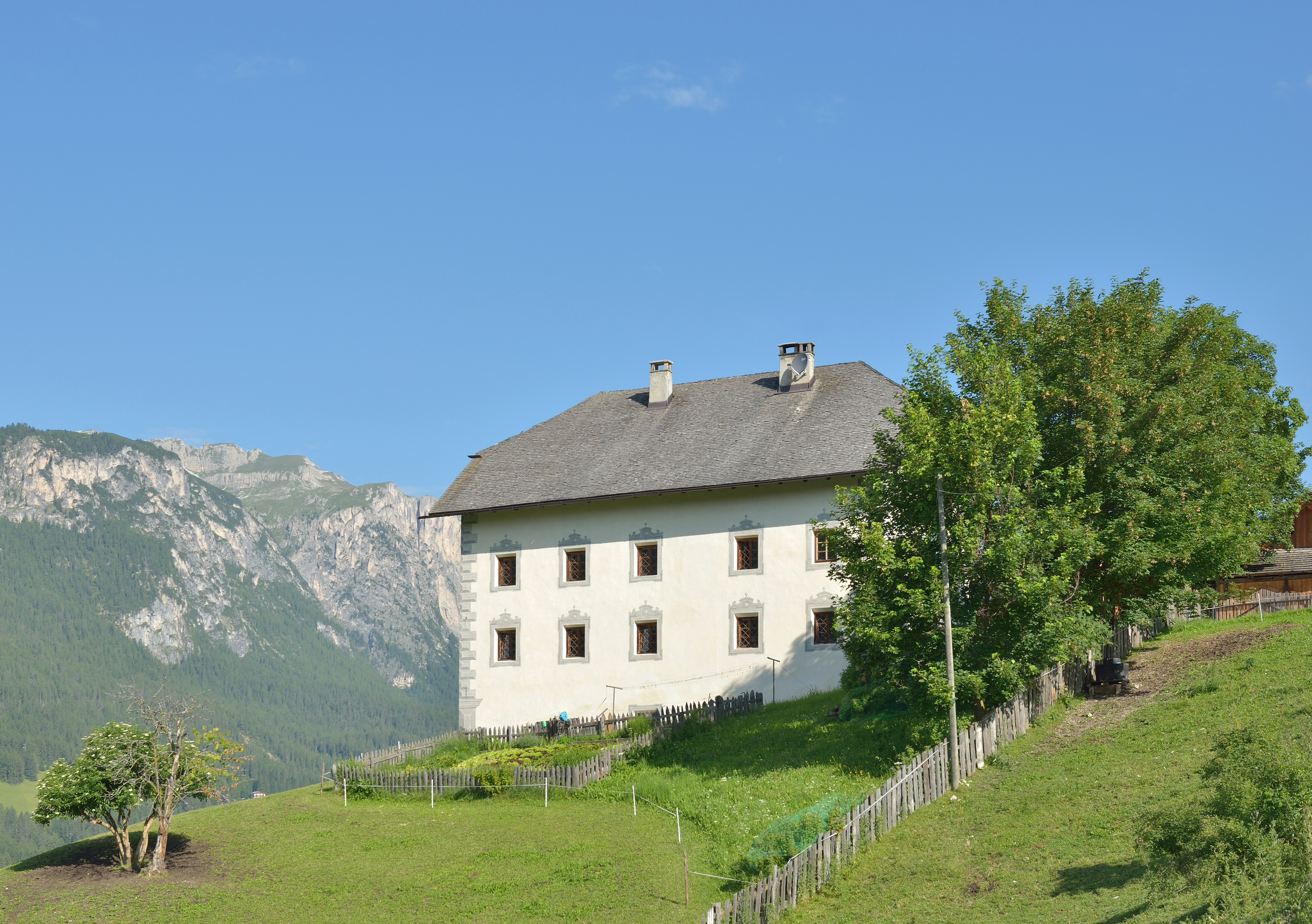 Alpine farmhouse "Ciampidel" in San Ciascian